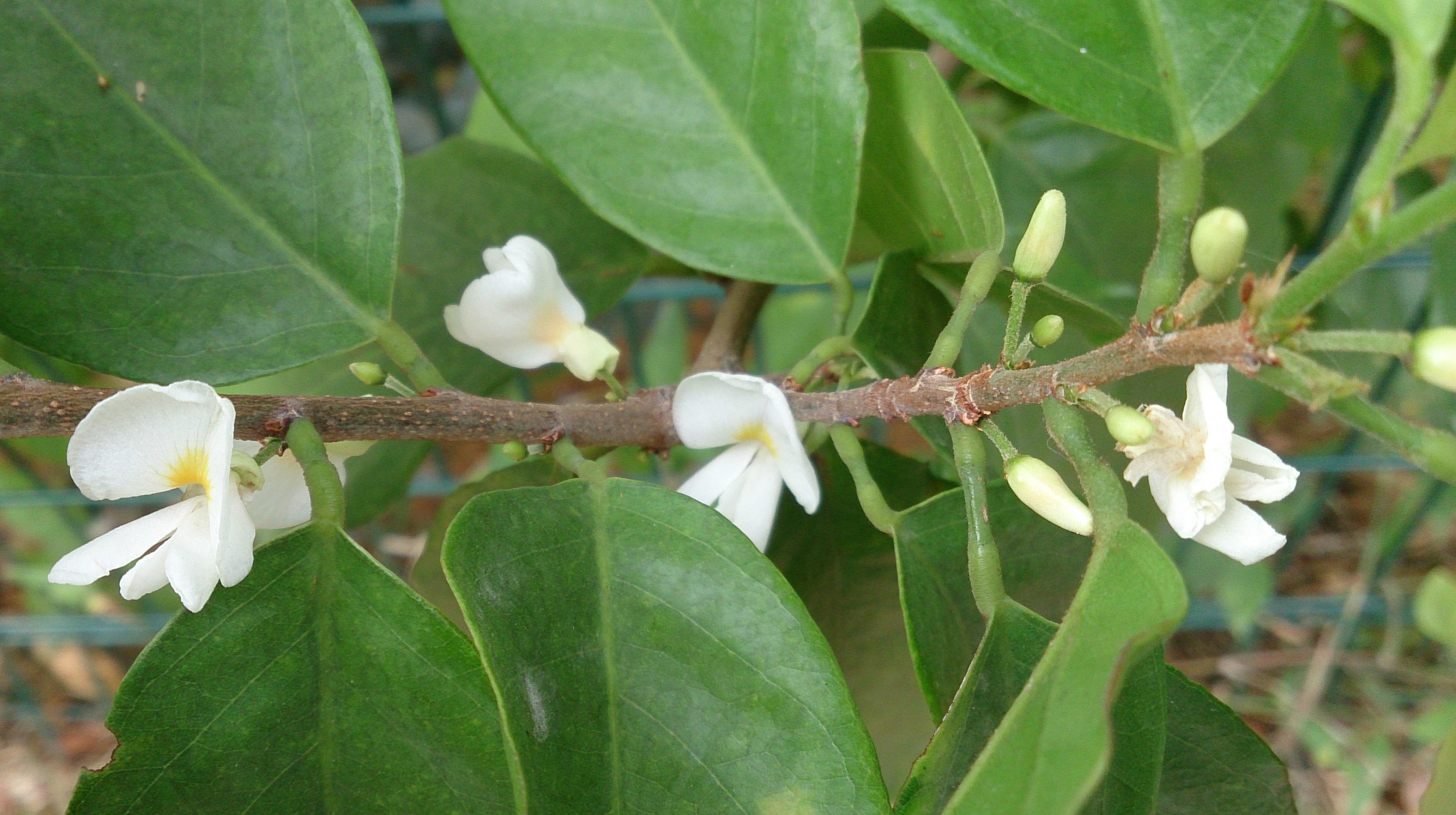 Baphia nitida. Common names: African Sandalwood, Barwood, Camwood